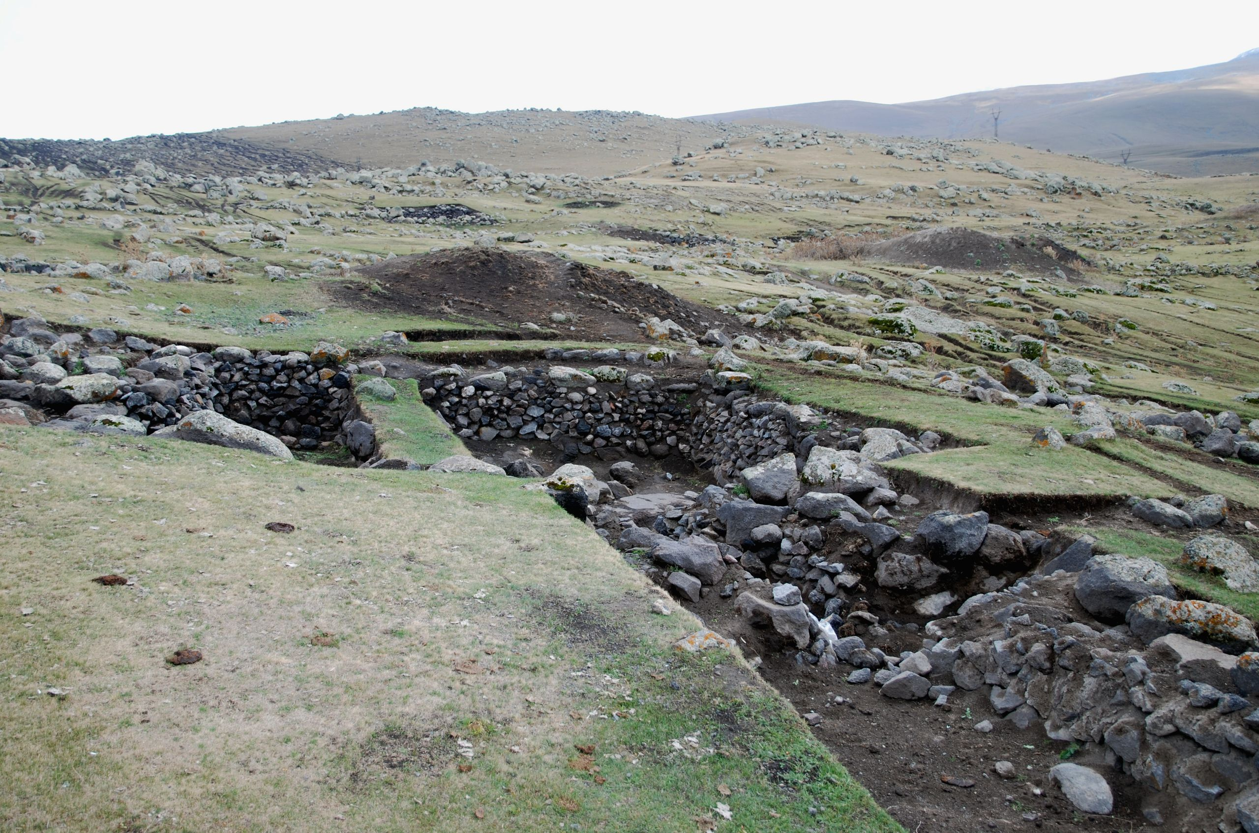 Tsaghkahovit, southeast of citadel